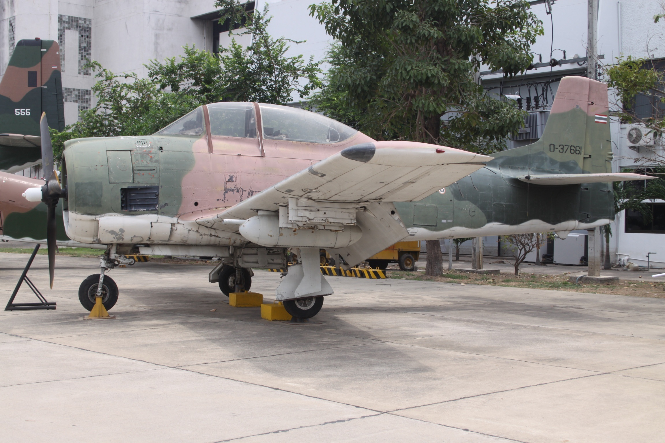 At Don Mueang International Airport